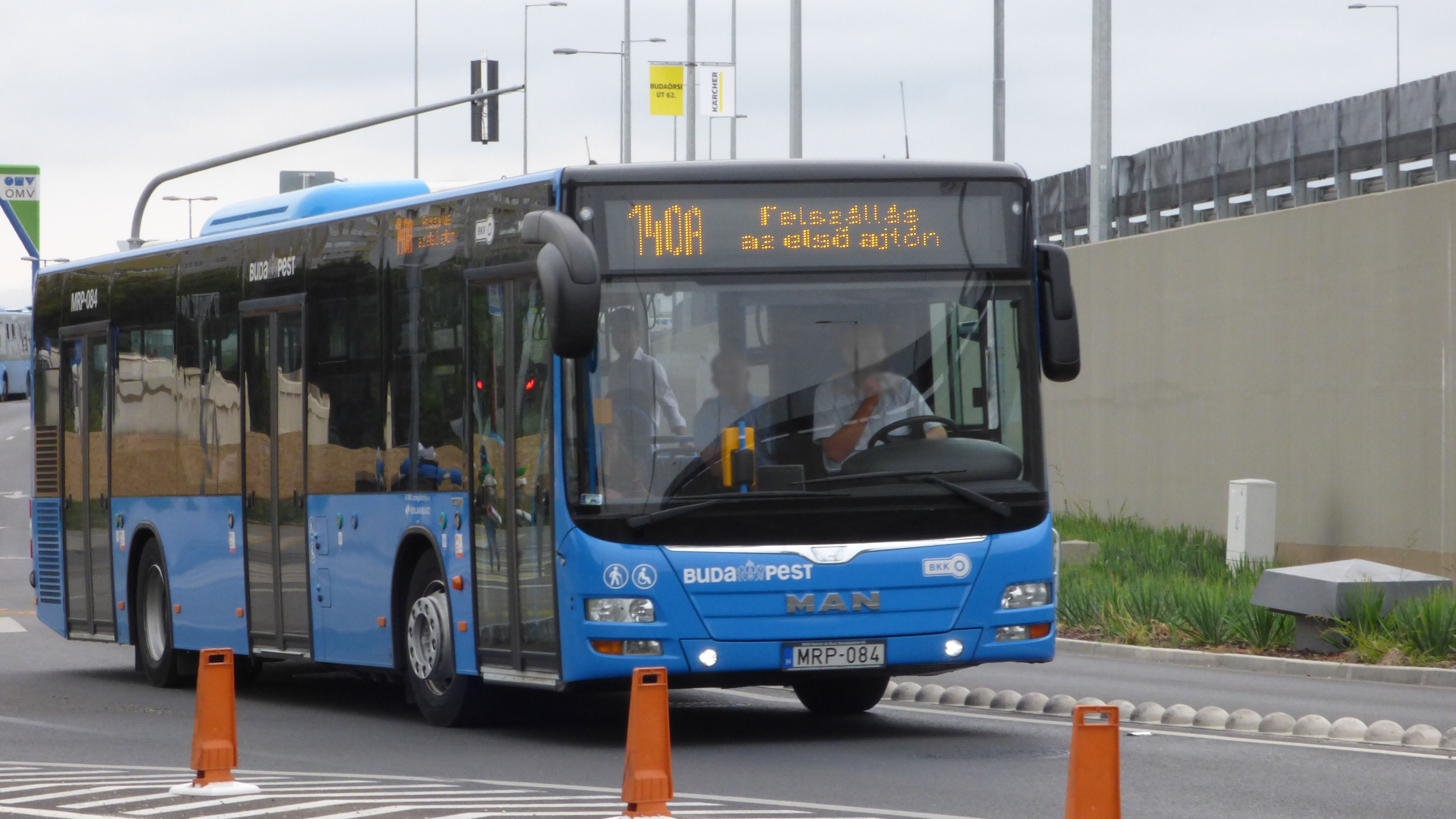 MAN A21 Lion's City bus, Budapest, bus line 140A (reg. MRP-084)